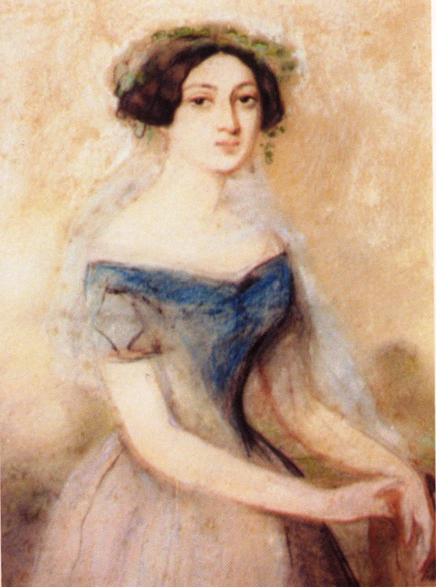 Nina Chavchavadze, wife of Alexander Griboedov